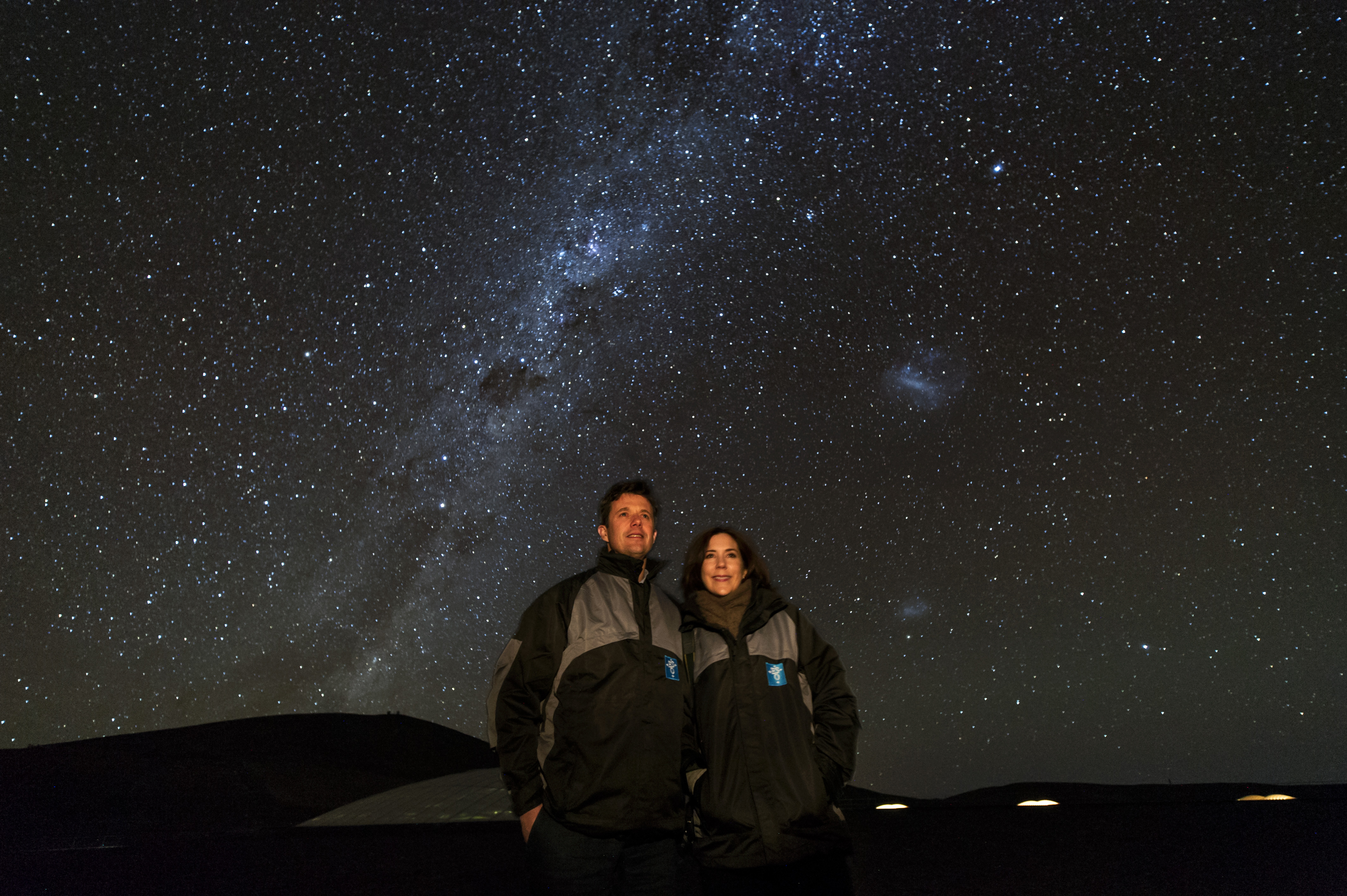 On 14 March 2013 His Royal Highness The Crown Prince of Denmark, accompanied by his wife, Her Royal Highness The Crown Princess, visited ESO’s Paranal Observatory, as part of an official visit to Chile. They were taken on a tour of ESO’s world-leading astronomical facilities on Paranal by ESO’s Director General, Tim de Zeeuw. In this unusual night-time picture the Crown Prince Couple were enjoying spectacular views of the skies of Paranal. The Milky Way and the Magellanic Clouds are well seen in the background.